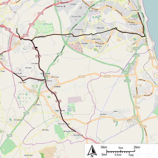 Sunderland District Electric Tramways Legend: ━━━ Tertiary lines